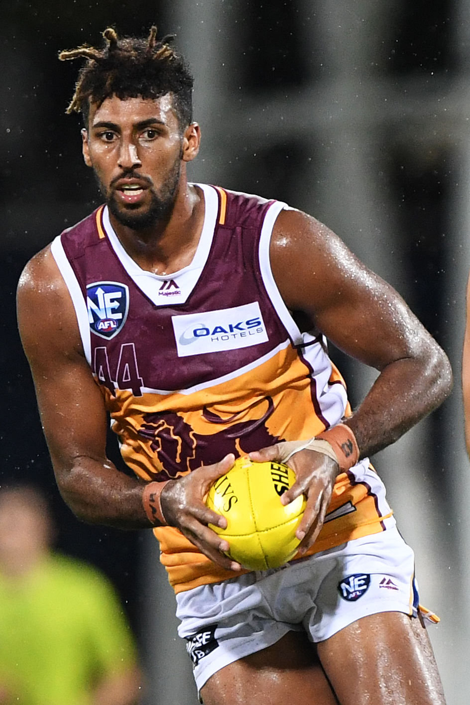 Archie Smith of the Brisbane Lions during the NEAFL round one match between NT Thunder and Brisbane Lions at TIO Stadium on 6 April 2019 in Darwin, Australia.